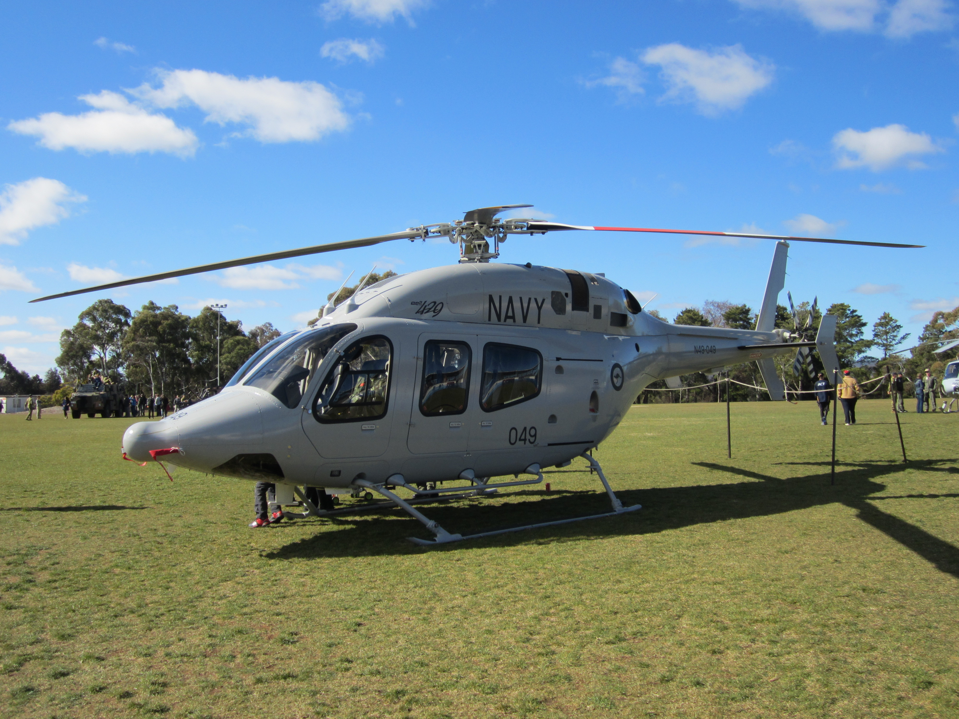 Royal Australian Navy Bell 429 helicopter N49-049 on display at the ADFA open day in August 2012